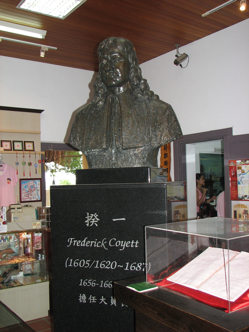 Bust of Frederick Coyett in Old Castle of Anping, Tainan, Taiwan